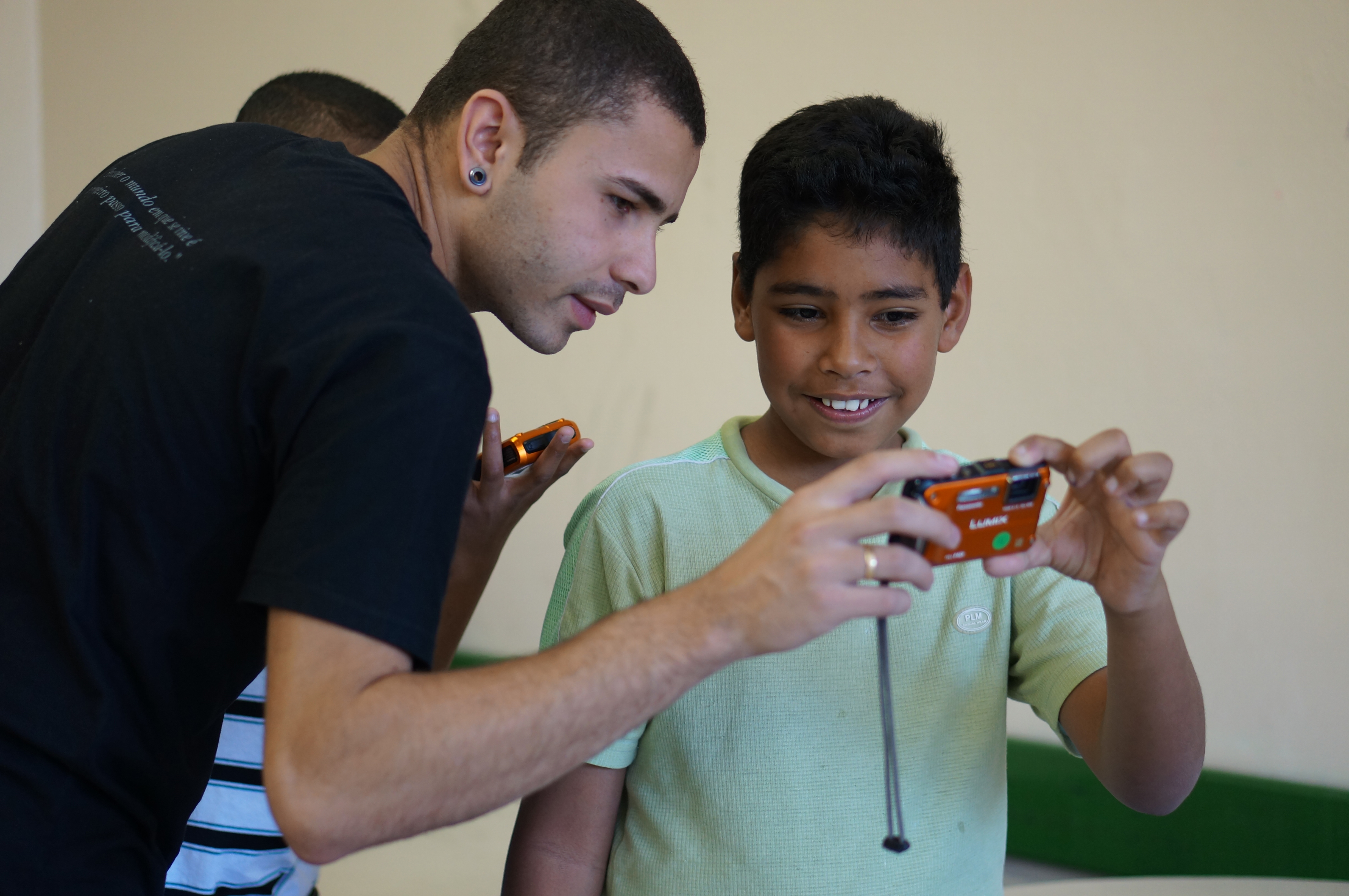 making of activities